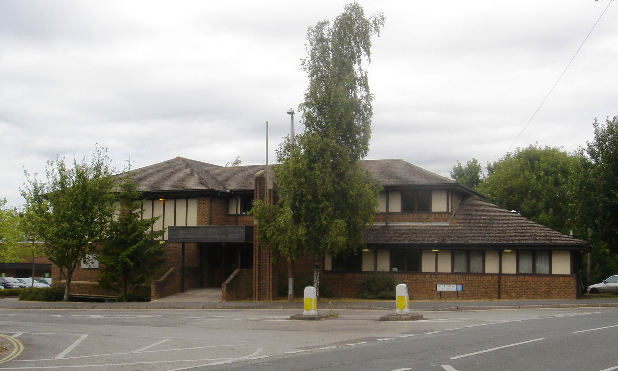 A meetinghouse of The Church of Jesus Christ of Latter-day Saints, Ship Street, East Grinstead, District of Mid Sussex, West Sussex, England. Built as a permanent place of worship for this community in 1985.